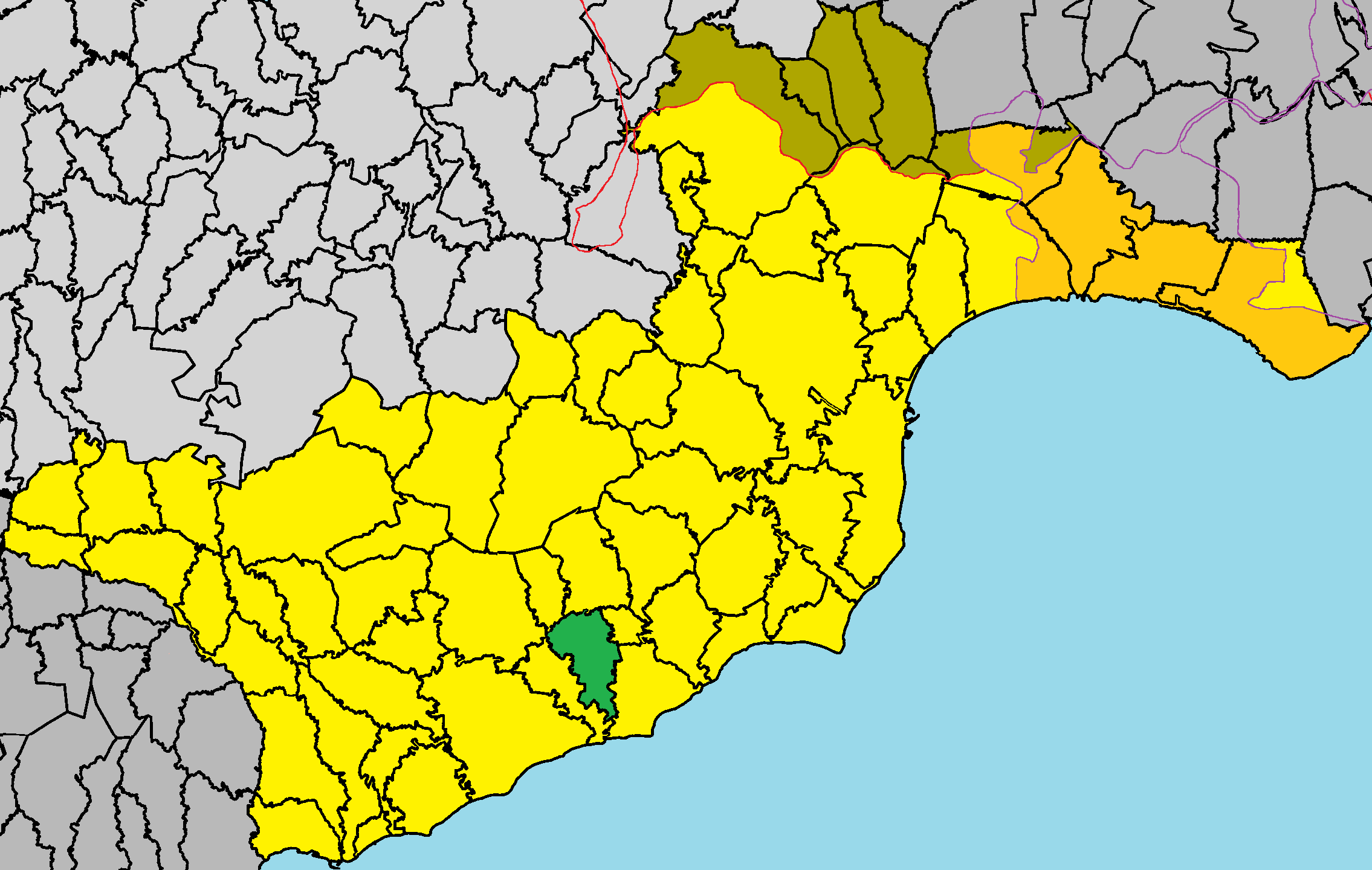 Anafotia in Larnaca District.